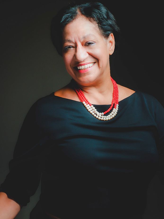 debra austin picture